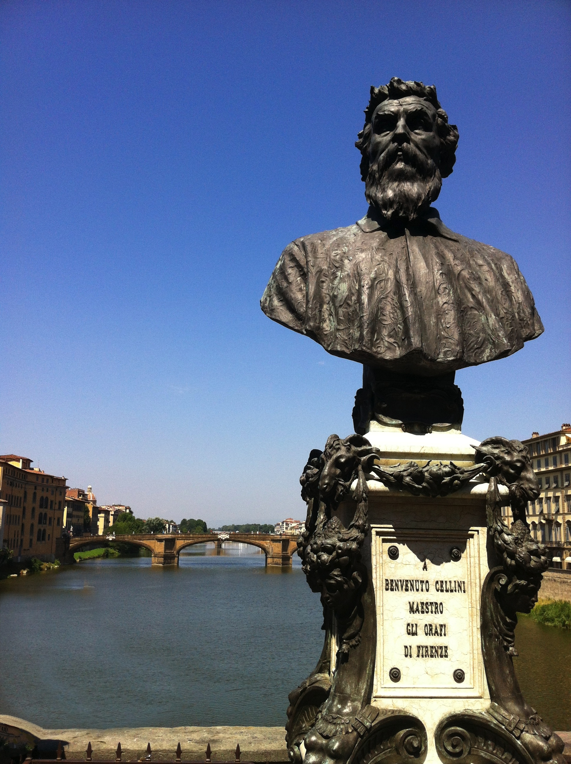 Monumento a Benvenuto Cellini, di Raffaello Romanelli (1901), al centro di Ponte Vecchio, a Firenze